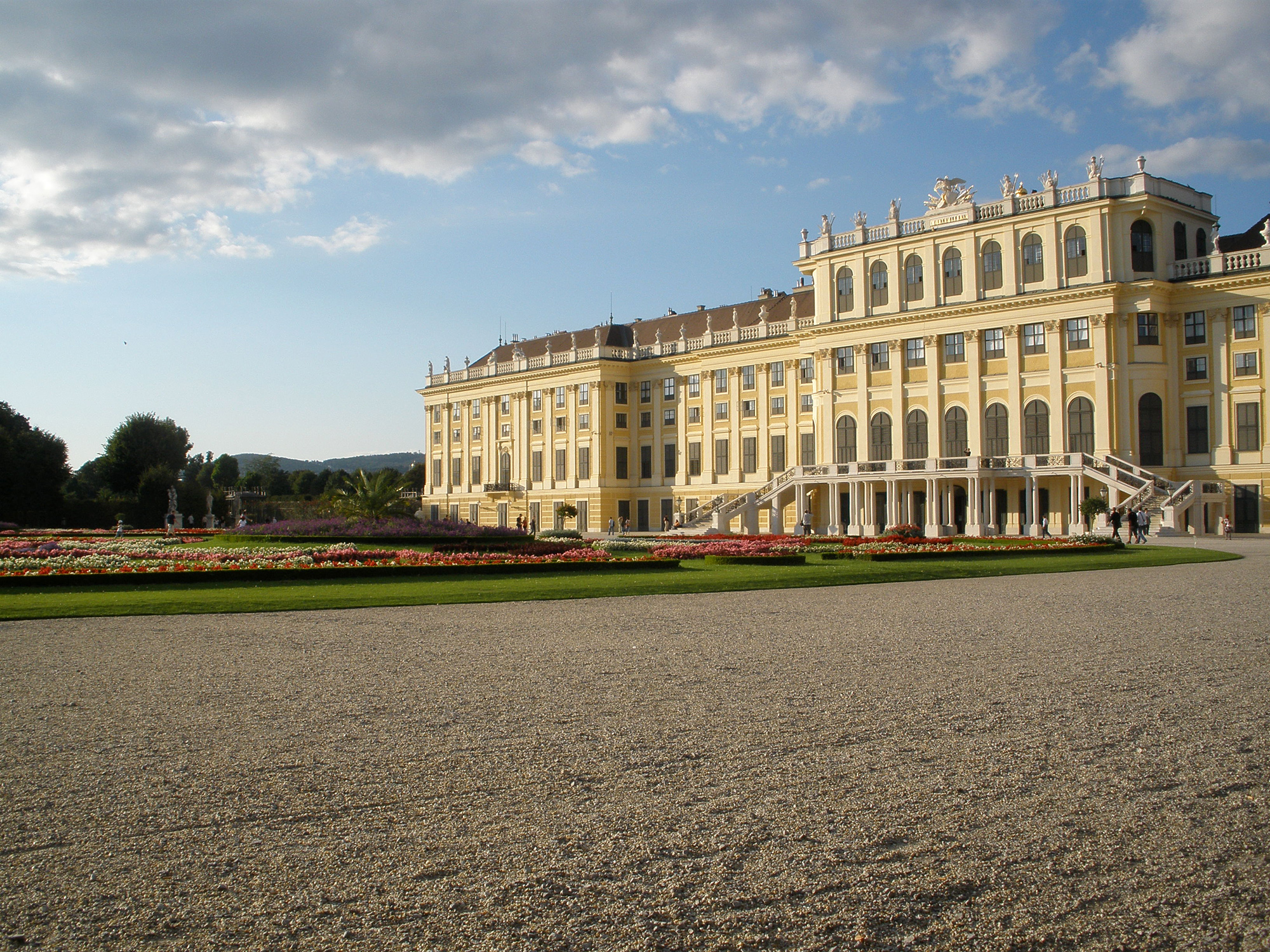 Austria, Vienna, Schönbrunn Palace